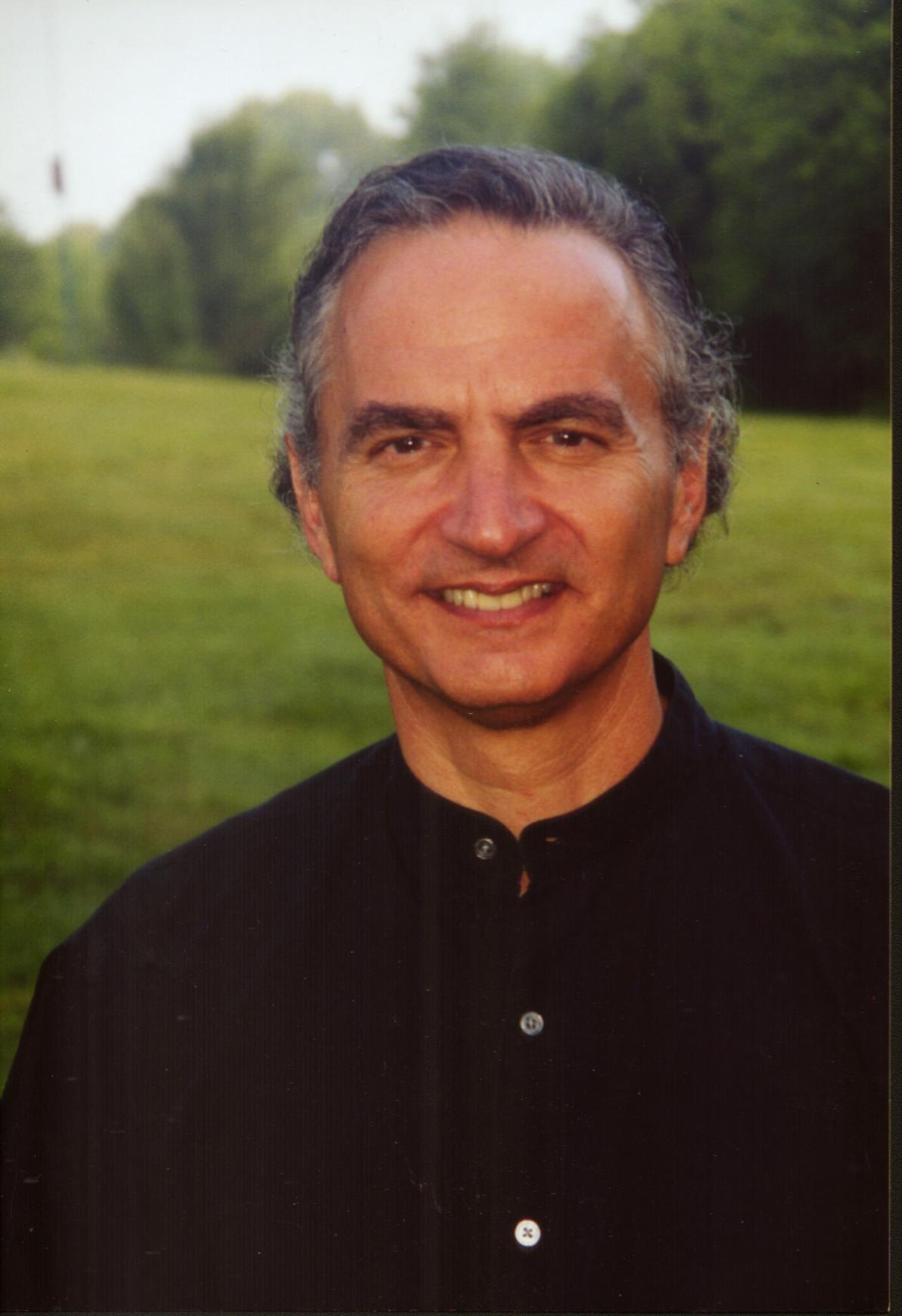 Bo Lozoff, charity worker, musician, author.